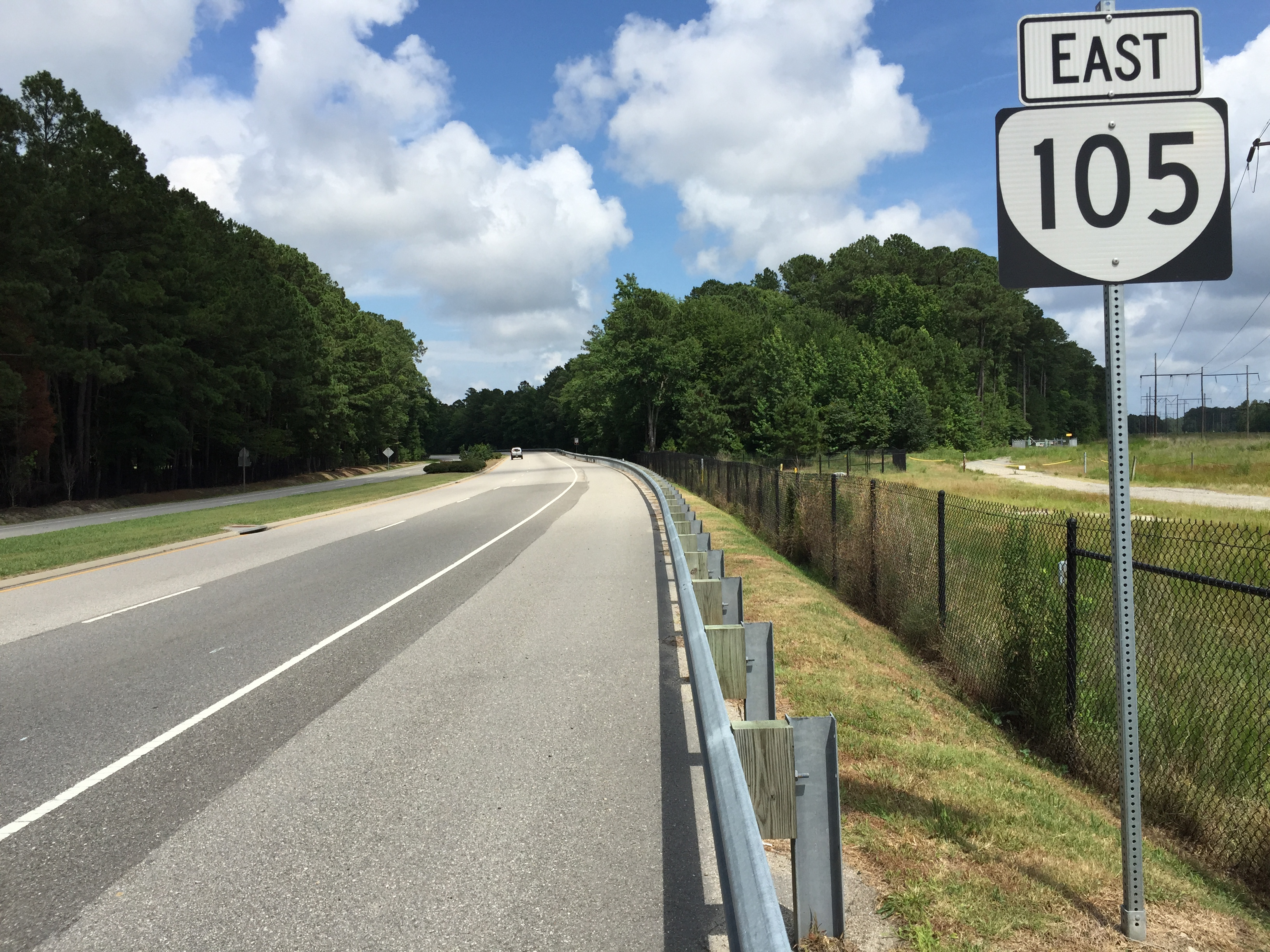 View east along Virginia State Route 105 (Fort Eustis Boulevard) just east of Woodside Lane and Clubhouse Way in York County, Virginia